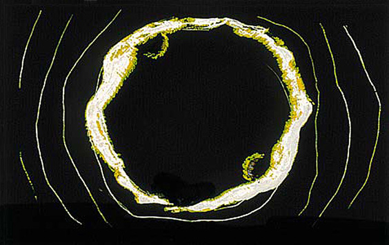 Scratch-Drawing "bgWheelKeepnTurn_1990" on diapositive by Nikolaus A. Nessler, 1990